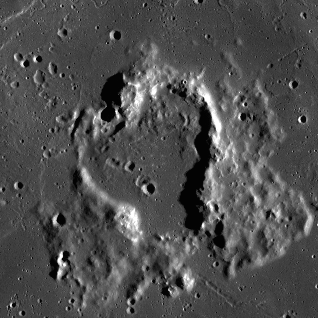 Crater Wolf on the Moon. Mosaic of photos by Lunar Reconnaissance Orbiter, made with Wide Angle Camera. Size of the image is 62×62 km, north is up.